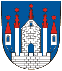 Coat of arms of Zábřeh, city in the Czech Republic